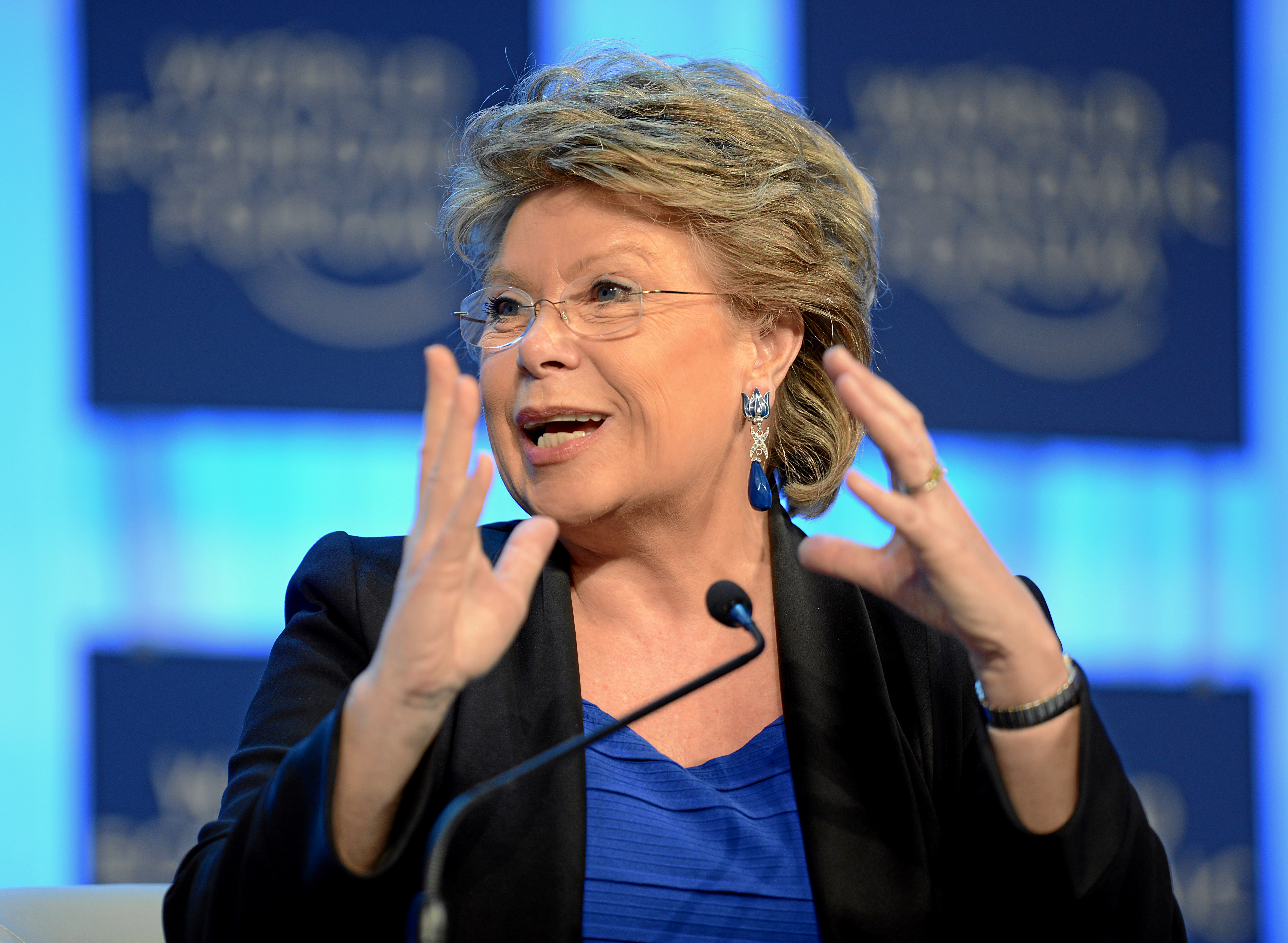 DAVOS/SWITZERLAND, 25JAN13 - Viviane Reding, Vice-President and Commissioner, Justice, Fundamental Rights and Citizenship, European Commission, Brussels smiles during the session 'Women in Economic Decision-making' at the Annual Meeting 2013 of the World Economic Forum in Davos, Switzerland, January 25, 2013. . . Copyright by World Economic Forum. . Michael Wuertenberg